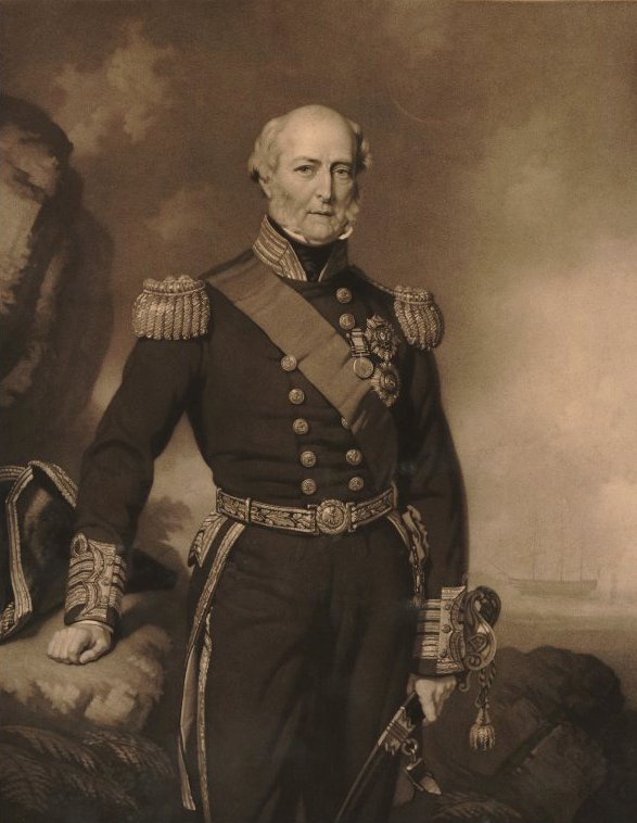 Mezzotint of Admiral, Sir George Francis Seymour (1787-1870), Admiral of the Fleet.